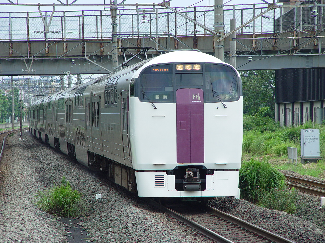 A JR East 215 series EMU approaches Shin-Kawasaki station with a special service from Zushi to Shinagawa